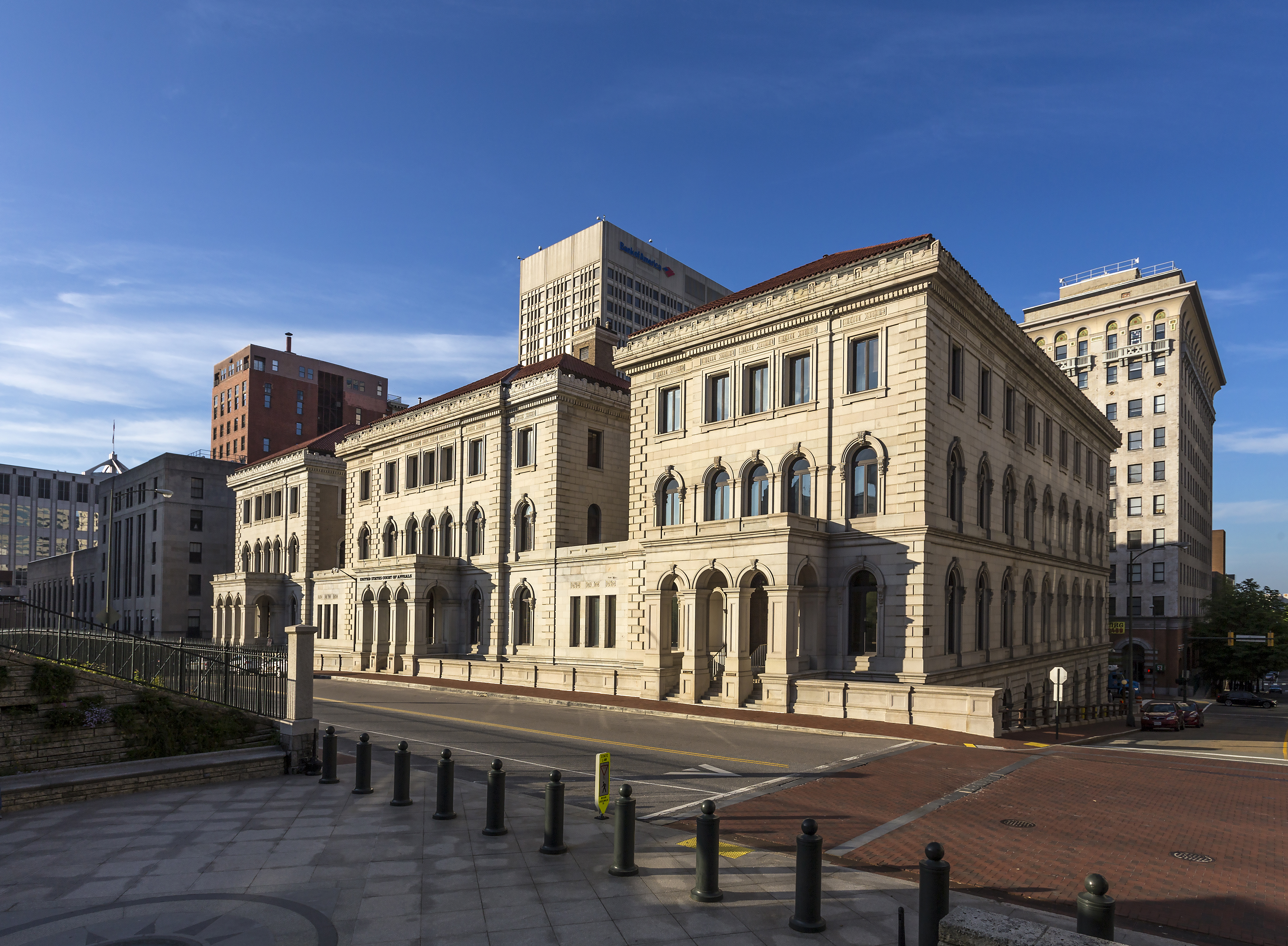 The Court of Federal Appeals (Lewis F. Powell Courthouse) and the skyline of Richmond, Virginia, in the early morning from the foot of the Virginia Capitol grounds, Richmond, Virginia, USA